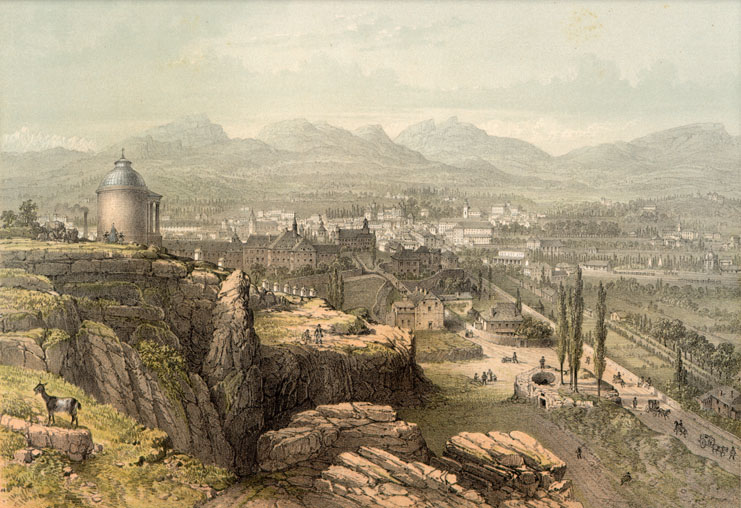 Presentation of landscapes and main cities of Savoie in 1864 ordered by Napoleon III. Here the Northern entrance of Chambéry.